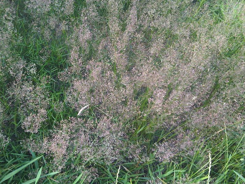 Meadow fescues (Festuca pratensis) in Putney Heath Common, England.